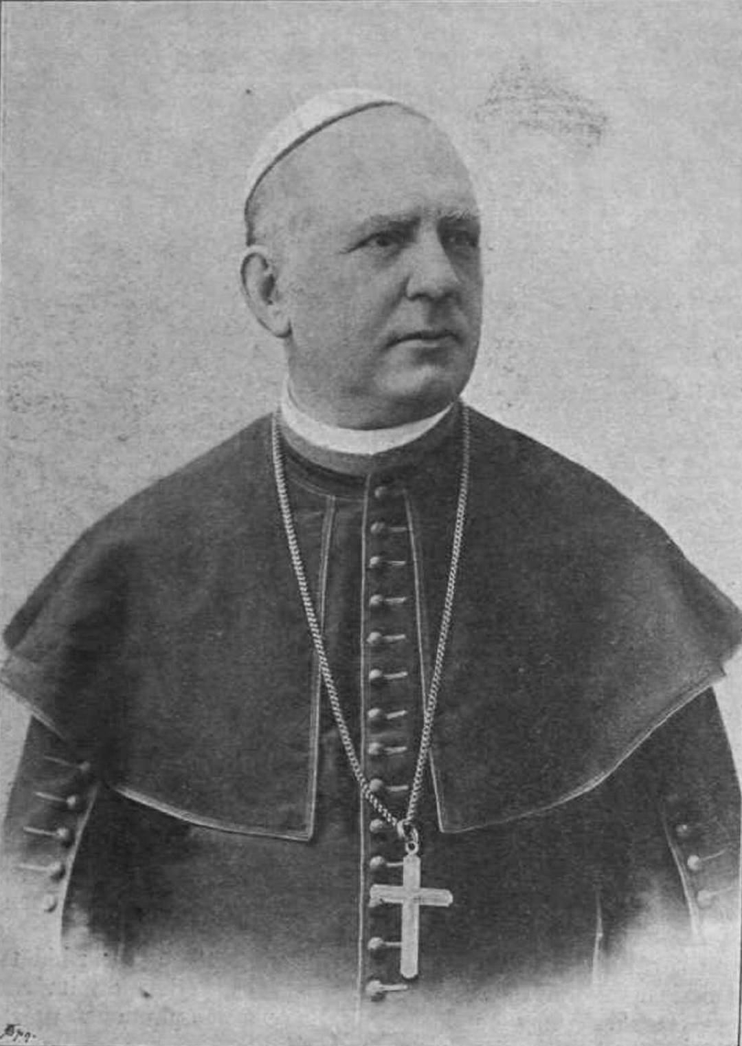 Fülöp Steiner